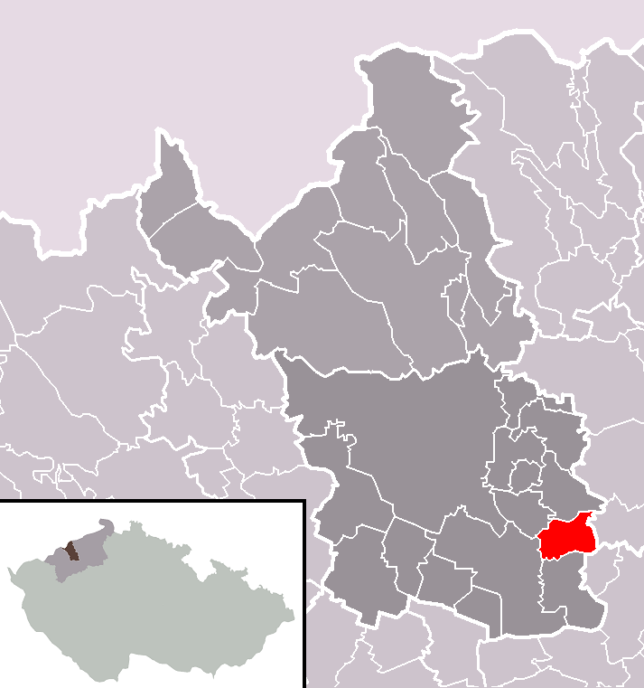 Location of Skršín municipality within Most District and administrative area of Most as a Municipality with Extended Competence.